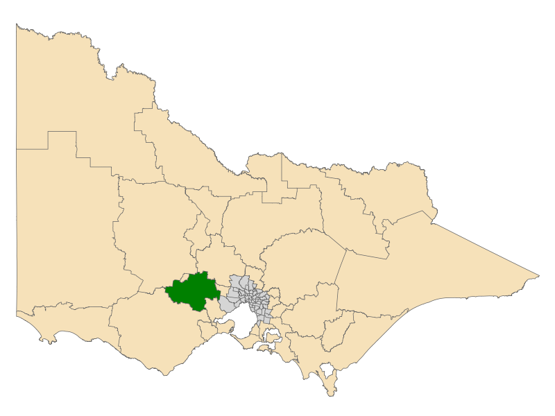 Location of the Electoral District of Buninyong (dark green) in the state of Victoria, Australia. These boundaries were used for the Victorian state election on 29 November 2014.